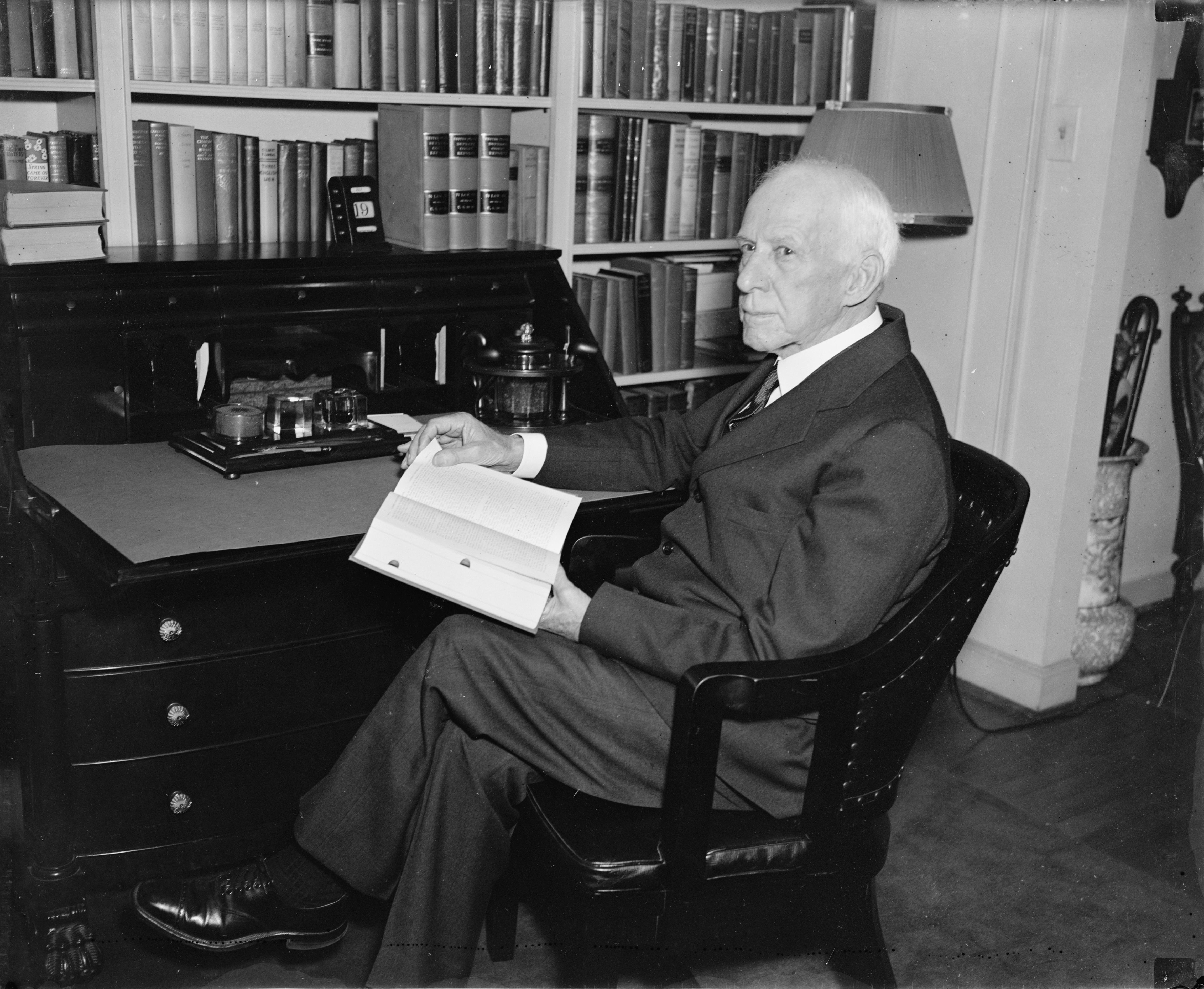 Justice Van Devanter retires. Washington, D.C., May 19th. Justice Willis Van Devanter, after 26 years of service with the Supreme Court sent his resignation to the president to become effective June 2nd, seldom photographed the judge let news photographer snap him while cleaning up his desk [ Escritoire ]